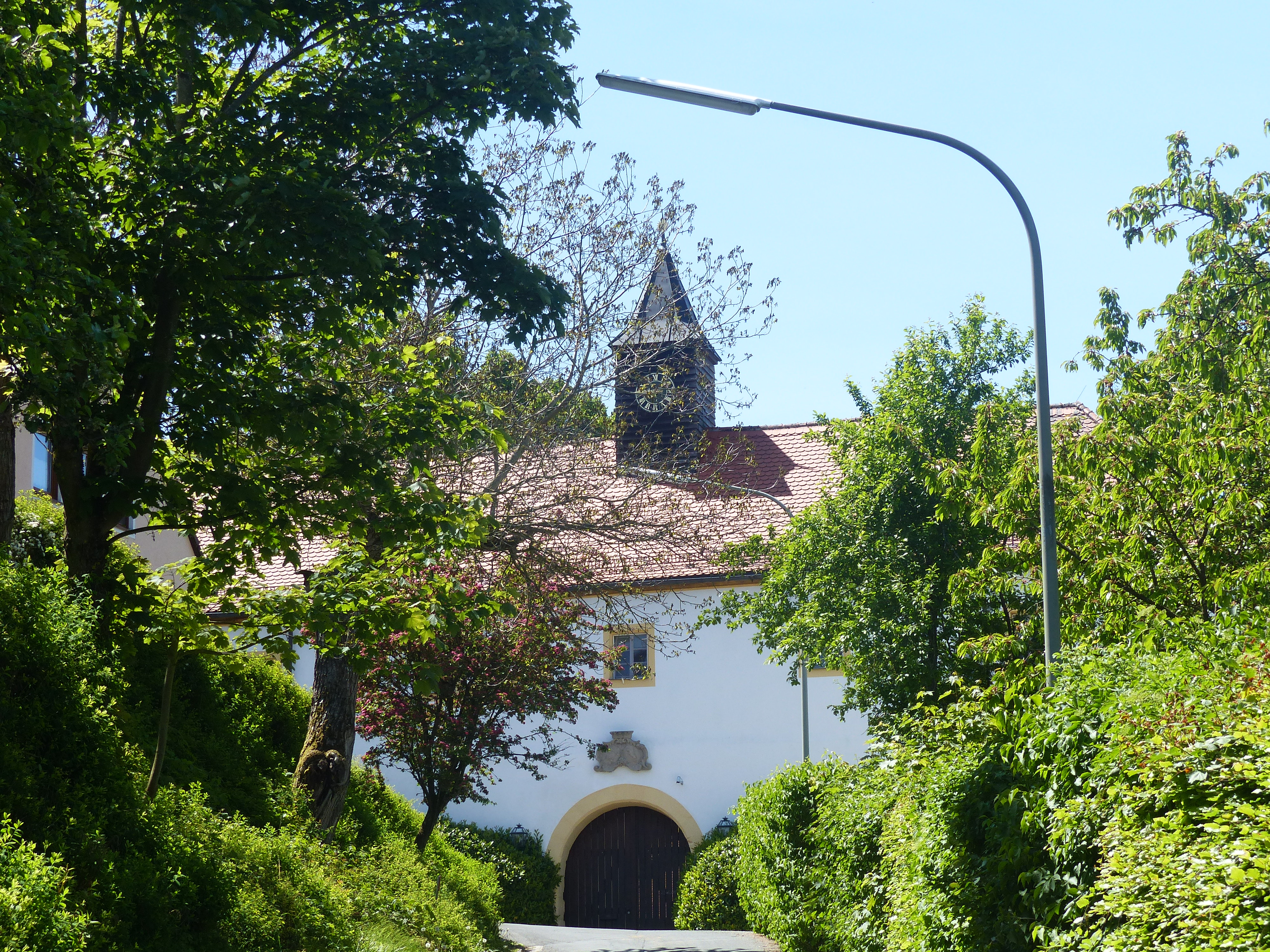 Gate building with the economic wing of the château Adlitz in Adlitz, a village in the municipality of Ahorntal.